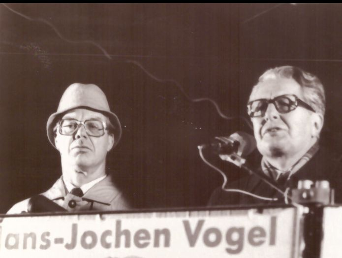 German MP Hans de With (l.) with Hans-Jochen Vogel, candidate for German chancelorhip for the German Socialdemocratic Party, 1982 or 1983